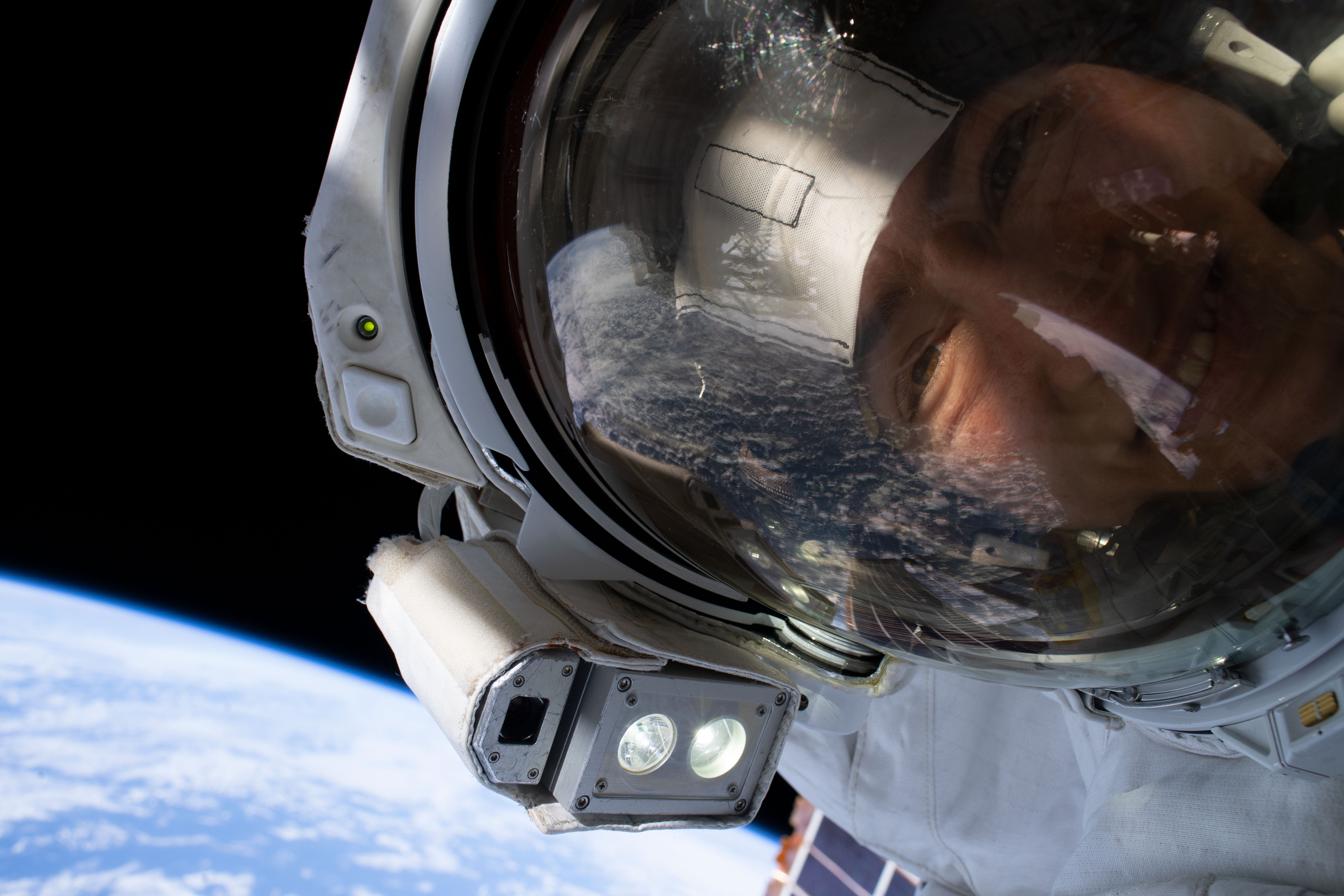 NASA astronaut Christina Koch takes an out-of-this-world "space-selfie" with the Earth behind her. She and fellow NASA astronaut Jessica Meir (out of frame) ventured into the vacuum of space for seven hours and 17 minutes to swap a failed battery charge-discharge unit (BCDU) with a spare during the first all-woman spacewalk. The BCDU regulates the charge to the batteries that collect and distribute solar power to the orbiting lab’s systems. 2019-10-18. iss061e011828.